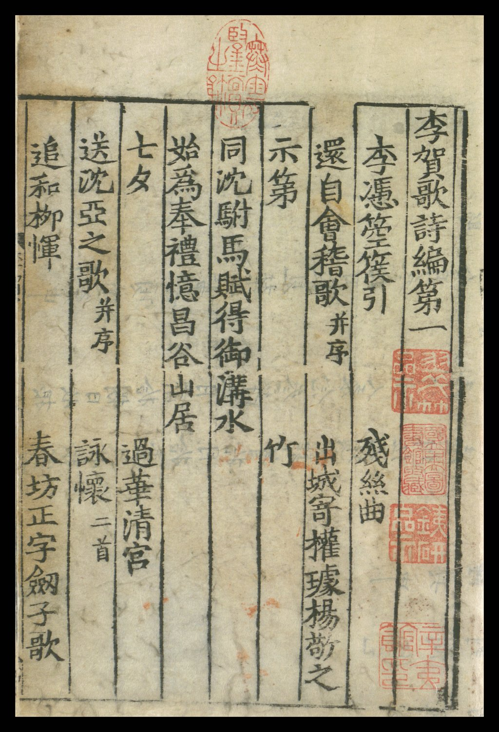 Li He (790–816), courtesy name Changji, was a Chinese poet of the late-Tang dynasty, known for his unconventional and imaginative style. A native of Changgu, Henan Province, Li was unsuccessful in the imperial examination. He died at age 27, having worked, despite his distant royal ancestry, as a poor minor official. About 240 of his poems survive. Although his works were admired by the late-Tang poets, none of his poems made their way into the popular anthologies, such as Tang shi san bai shou (300 Tang poems). As indicated in the preface by Tang poet Du Mu (803–circa 852), the original version of this four-juan work consisted of 223 poems, which Li He compiled, arranged into four groups, and gave to his friend, the classical scholar Shen Ziming. These poems do not represent his entire output, as there were later Song editions of his works with additional and different numbers of poems. This copy, with 207 poems, has several distinctive characteristics. The text is printed on Song paper made for official use and bears the dates of 1165–73, the first nine years of the Qiandao era of Southern Song emperor Xiaozong (reigned 1163–89). It contains seal impressions of some official bureaus, such as the Da li yuan di dang ku (Debt Security Treasury of the Supreme Court). In addition, the final strokes of characters in words considered taboo during the Song dynasty were not printed. Japanese scholar Abe Ryūichi suggested, in his work entitled Chūgoku hōshoshi, that, based on the style of characters and the engraving, the printing can be dated to the Shaoxing era (1131–62) of the Song dynasty. According to a postscript by Yuan Kewen, the book was originally in the collection of poet and calligrapher Wang Zhideng (1535–1612) and passed later to the collection of Ming calligrapher Zhang Chou (1577–1643). Poets, Chinese; Tang dynasty, 618-907